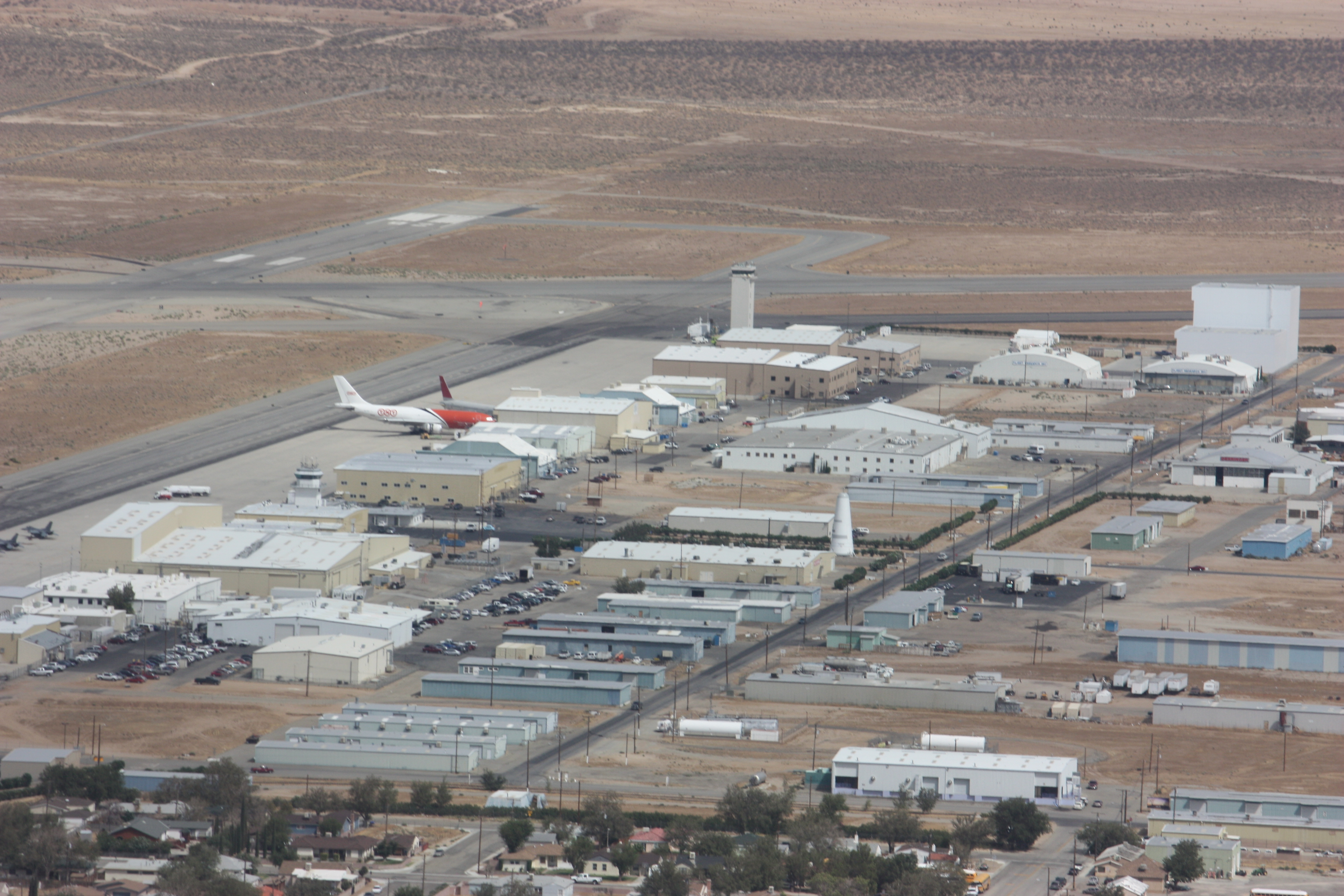 aerial photo of Mojave Air & Space Port on September 11, 2009